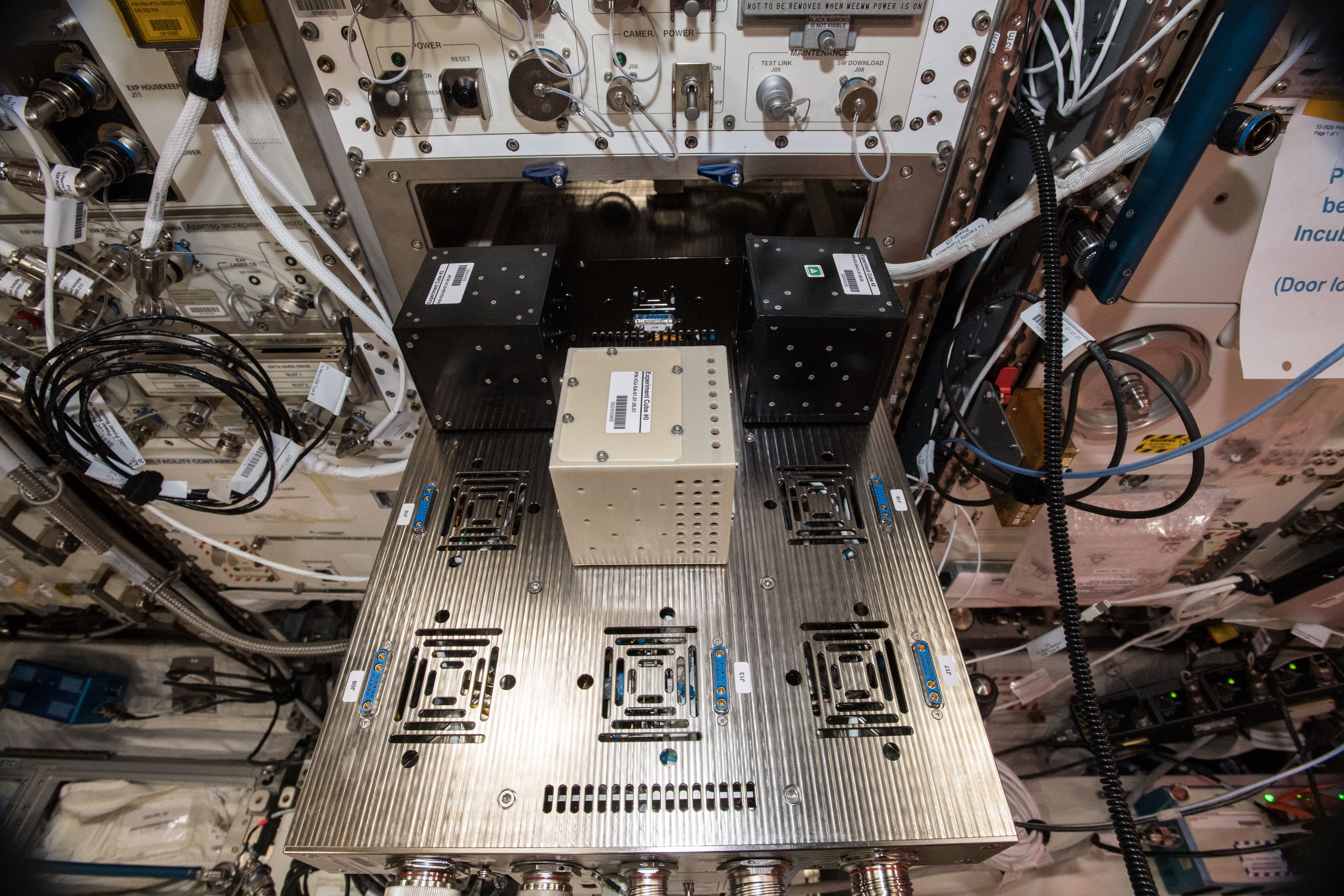 The ICE Cubes facility in ESA’s space laboratory Columbus offers plug-and-play installation for cube-sized experiments that relay experiment data back to Earth through the International Space Station’s infrastructure.The ICE Cubes service is based on a partnership between Space Applications Services and ESA and is part of ESA’s human and robotic exploration strategy to ensure access to the weightless research possibilities in low Earth orbit. The ICE Cubes service allows experiments to run for over four months in space. Astronaut time and expert advice come as part of the package and experiments and samples can be returned to Earth for analysis.